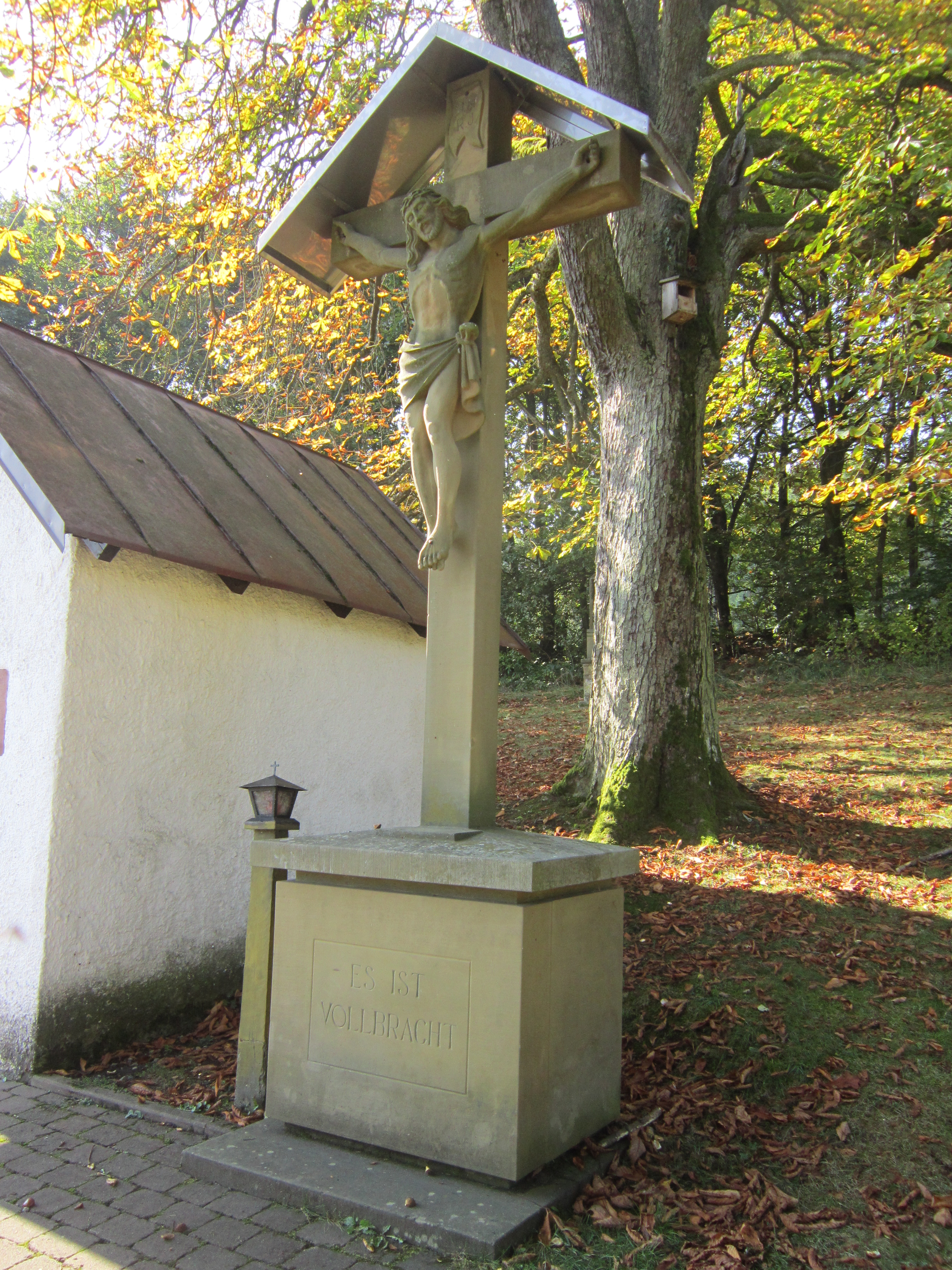 Crucifix at the "Kreuzkapelle" in Zahlbach, a quarter of the German town of Burkardroth in Lower Franconia (Bavaria).